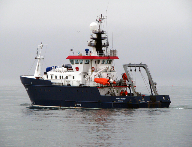 RV 'Prince Madog' in Belfast Lough. After 877875, the RV 'Prince Madog' in a very misty Belfast Lough heading towards the Isle of Man to continue her survey work. Normally seen off Welsh waters, the state-of-the-art purpose built research vessel was commissioned by Bangor University (Wales) and is managed and operated by VT Group. For other Geograph images of the same ship . . The vessel is named after the Welsh Prince Madog (Madoc ab Owain Gwynedd) who, according to folklore, discovered America in 1170 .